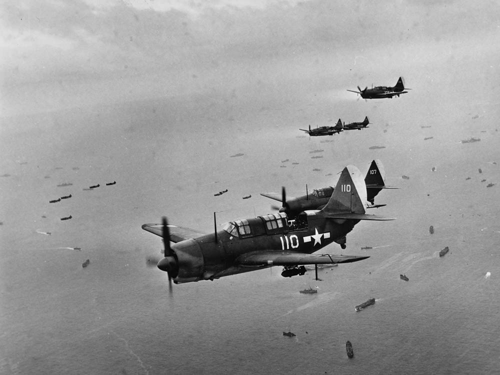 A U.S. Navy Curtiss SB2C-4 Helldiver bomber from Bombing Squadron VB-3, Carrier Air Group 3 (CVG-3), assigned to the aircraft carrier USS Yorktown (CV-10), fliy over the invasion fleet, during strikes on Iwo Jima on 22 February 1945. Note Yorktown´s geometric air group identification symbol on the SB2Cs.